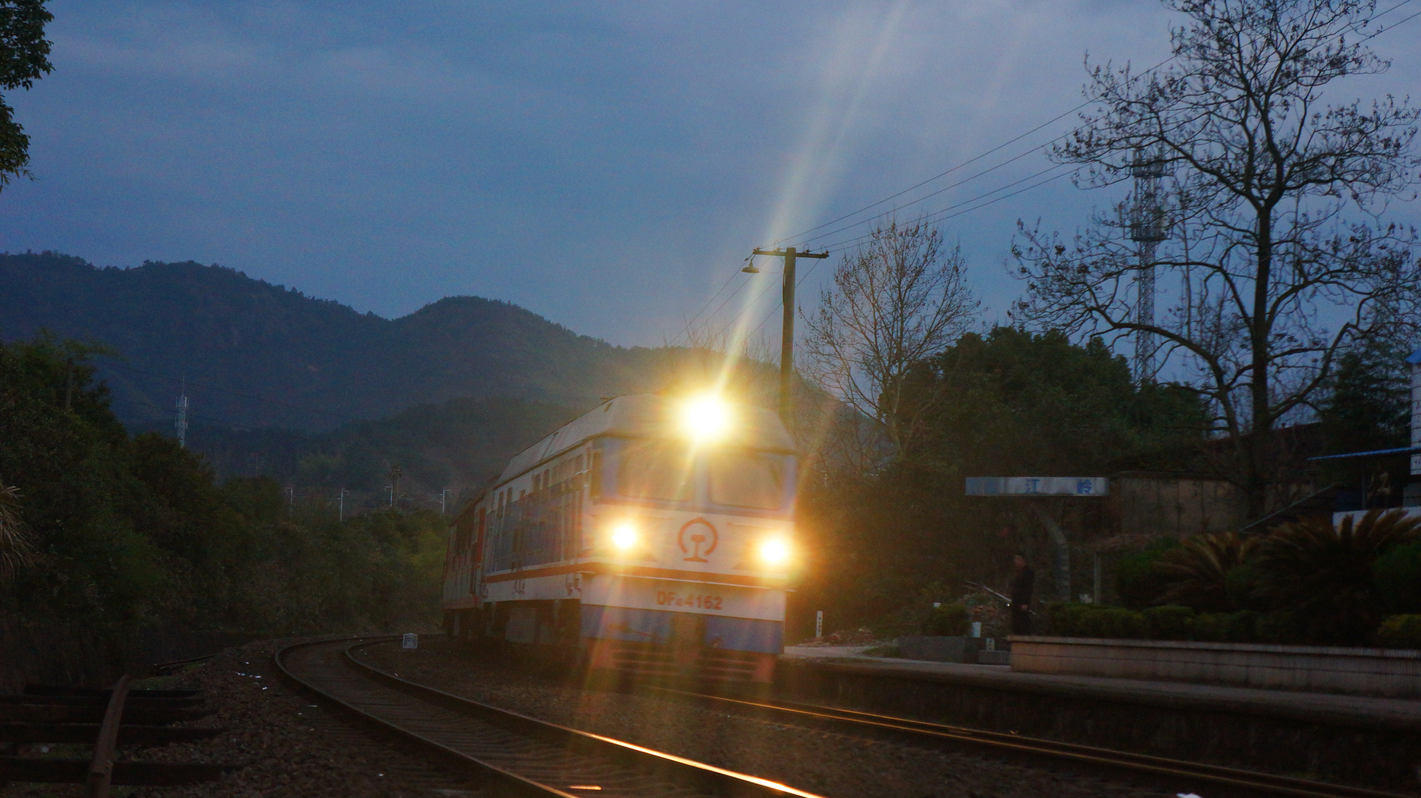 201602 Train No. K1238 passes Jianglinga Railway Station